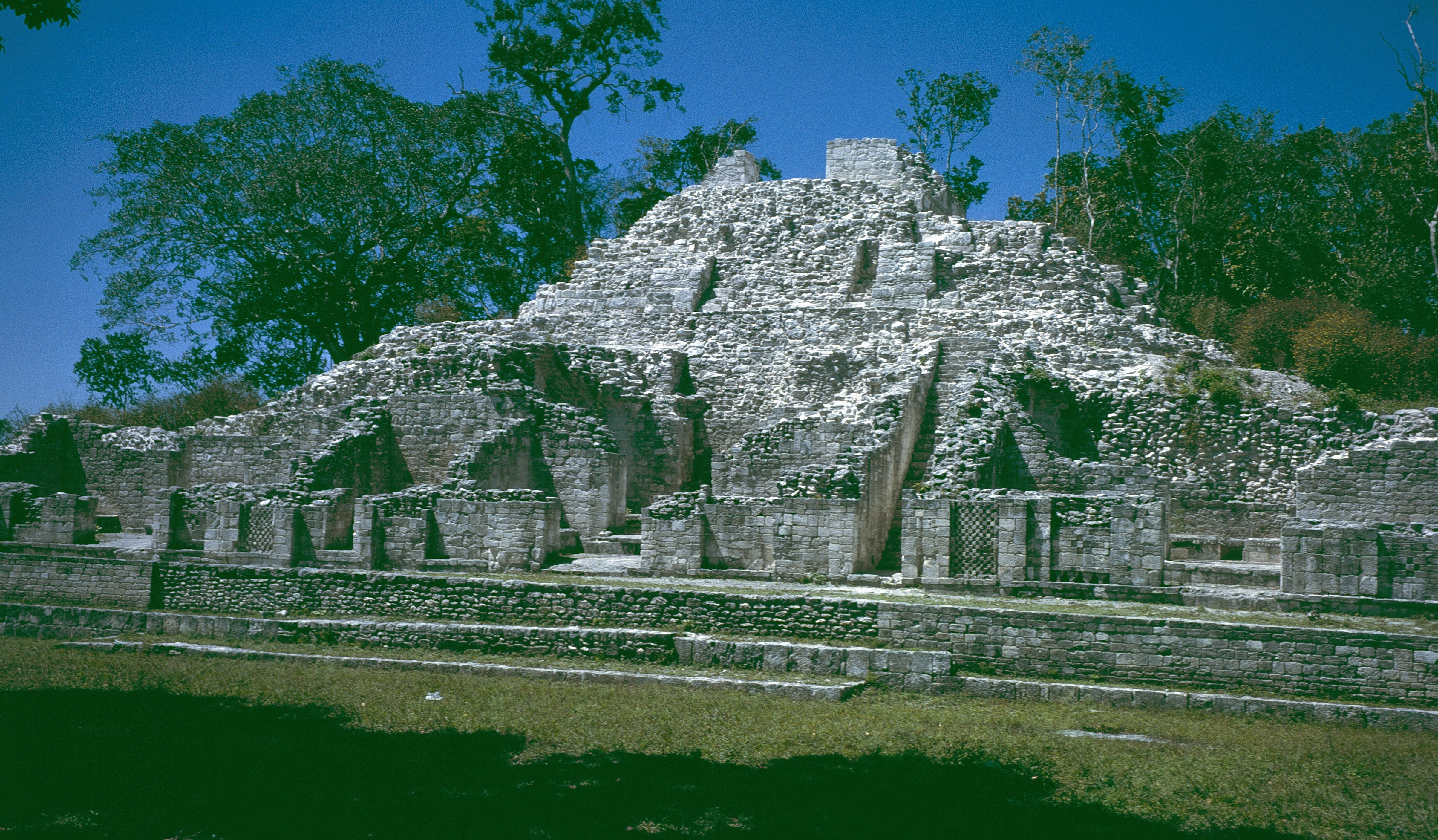 Becan, Campeche, Mexico: building II